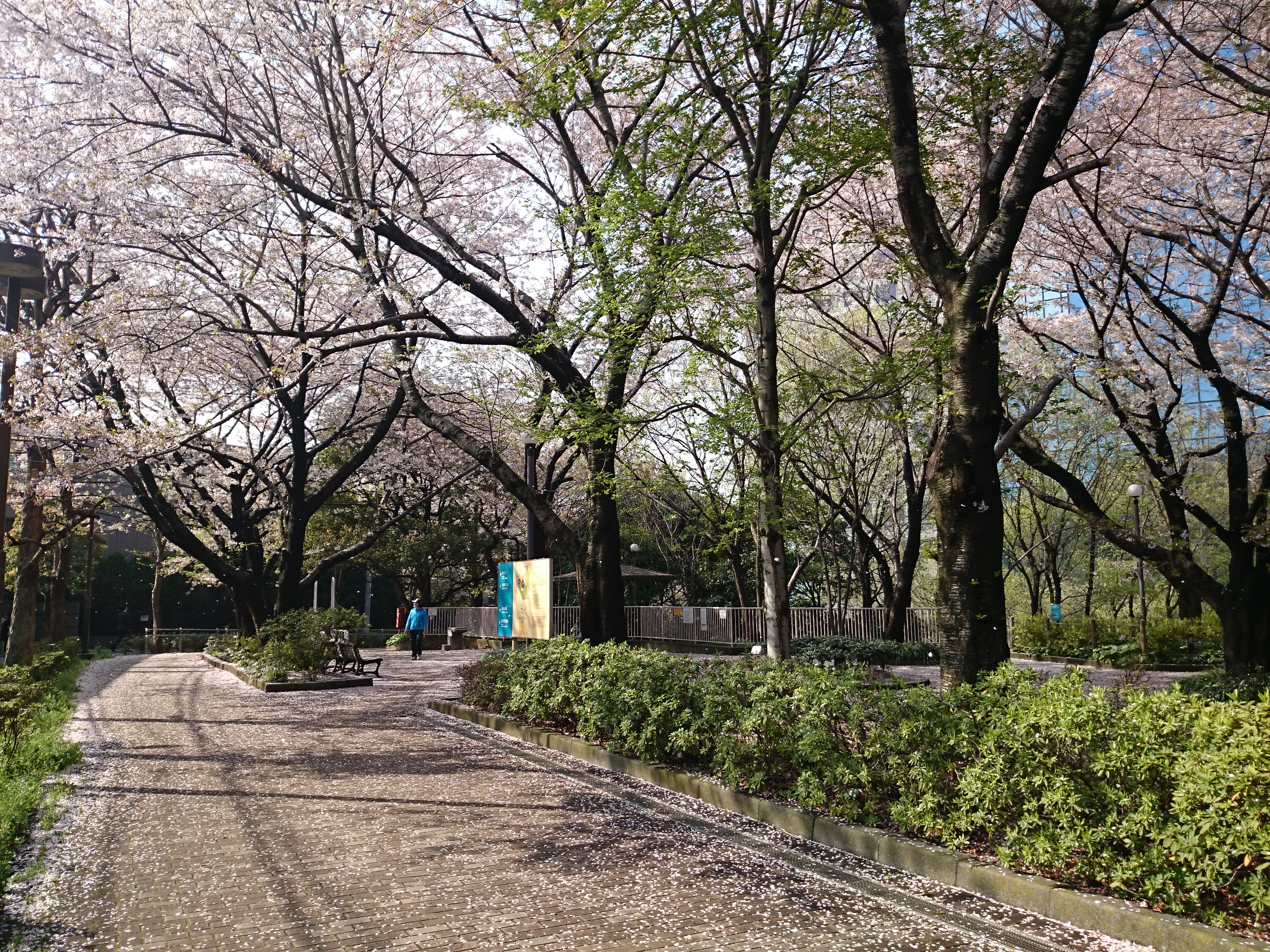 Goten-yama Hill at Kita Shinagawa 5-Chōme, Shinagawa, Tokyo.